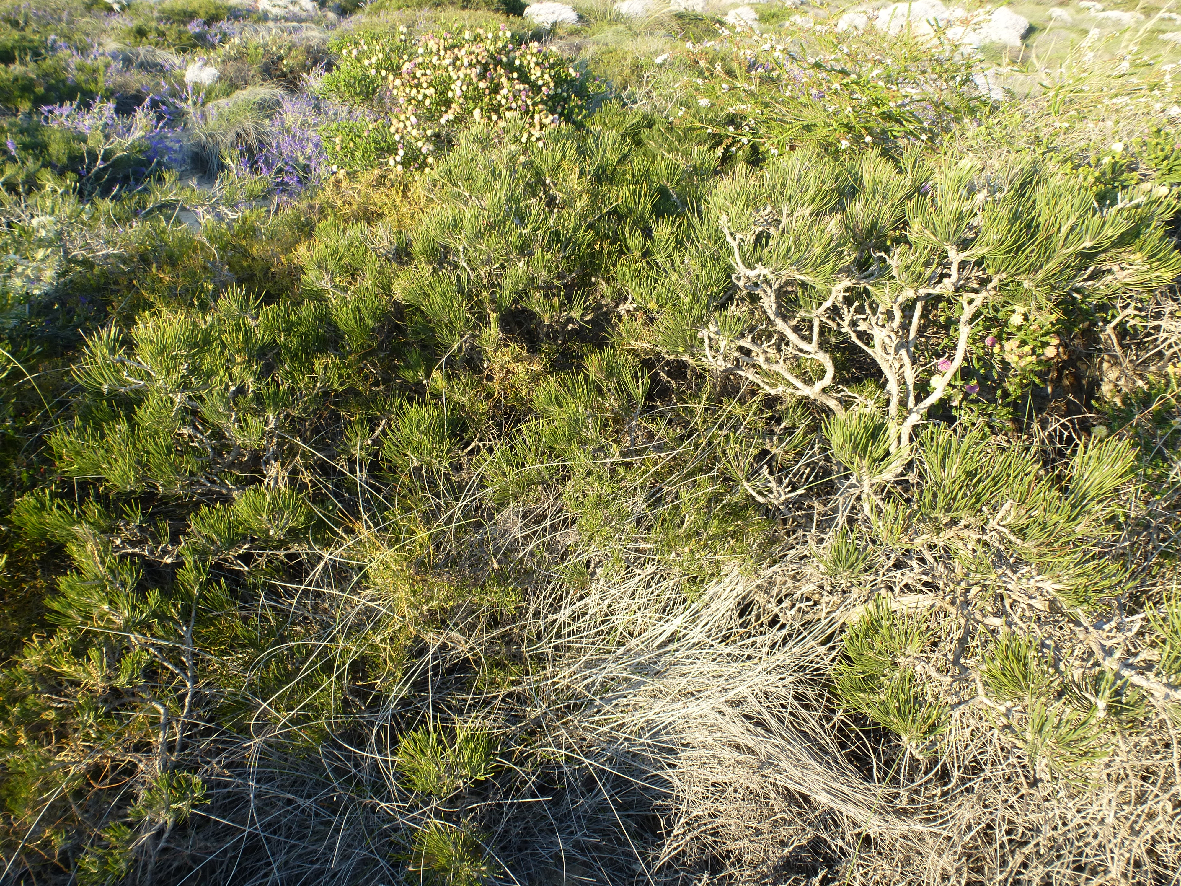 Calothamnus chrysanthereus growing on Red Bluff, near Kalbarri